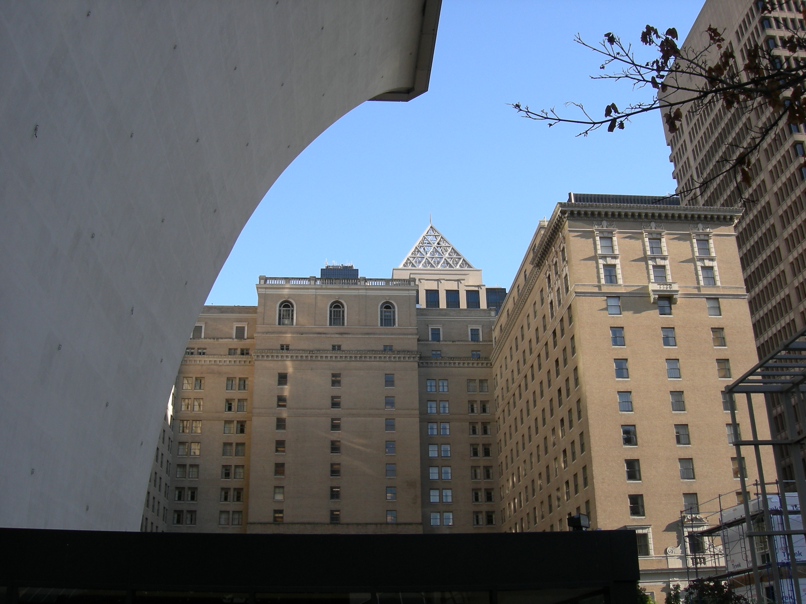 Olympic Hotel, Seattle, Washington, USA, seen from part of the Rainier Square complex. At left is the curved base of the Rainier Tower.